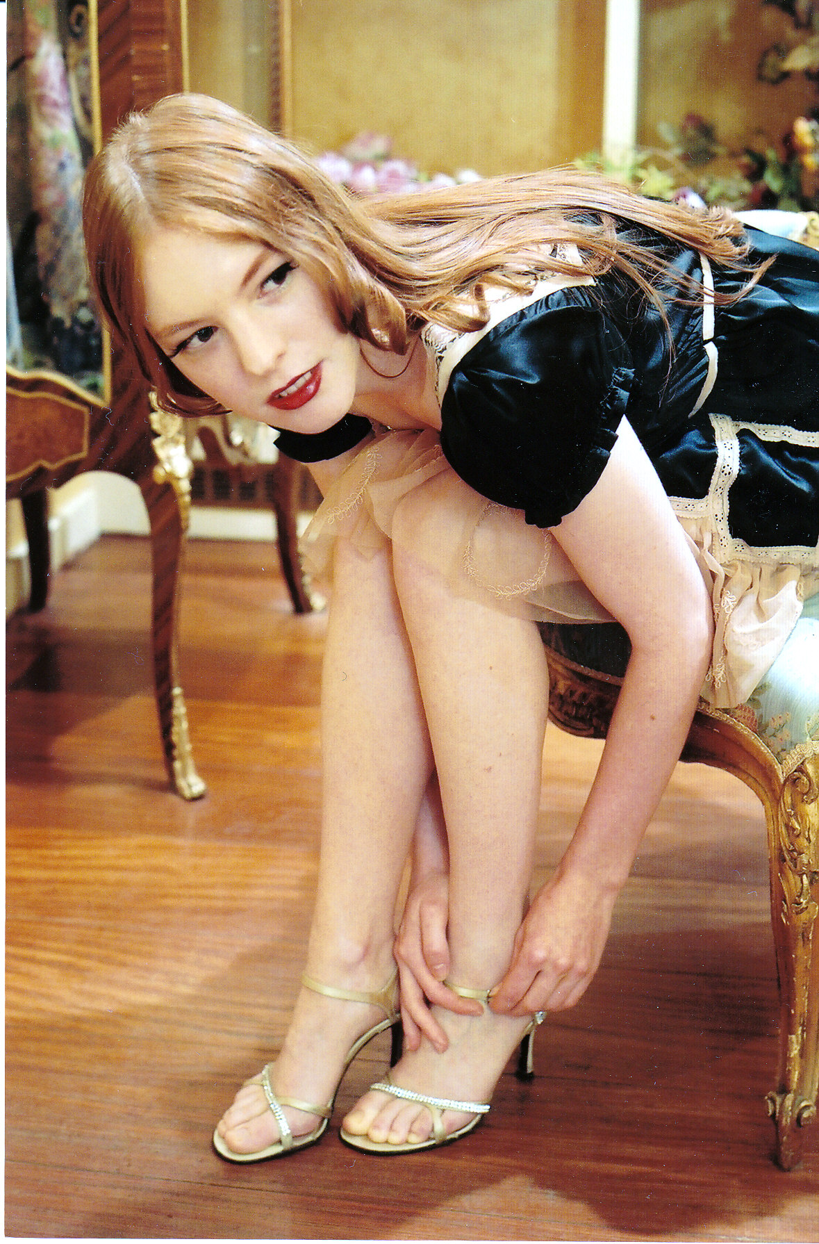 Julie-Marie Parmentier.